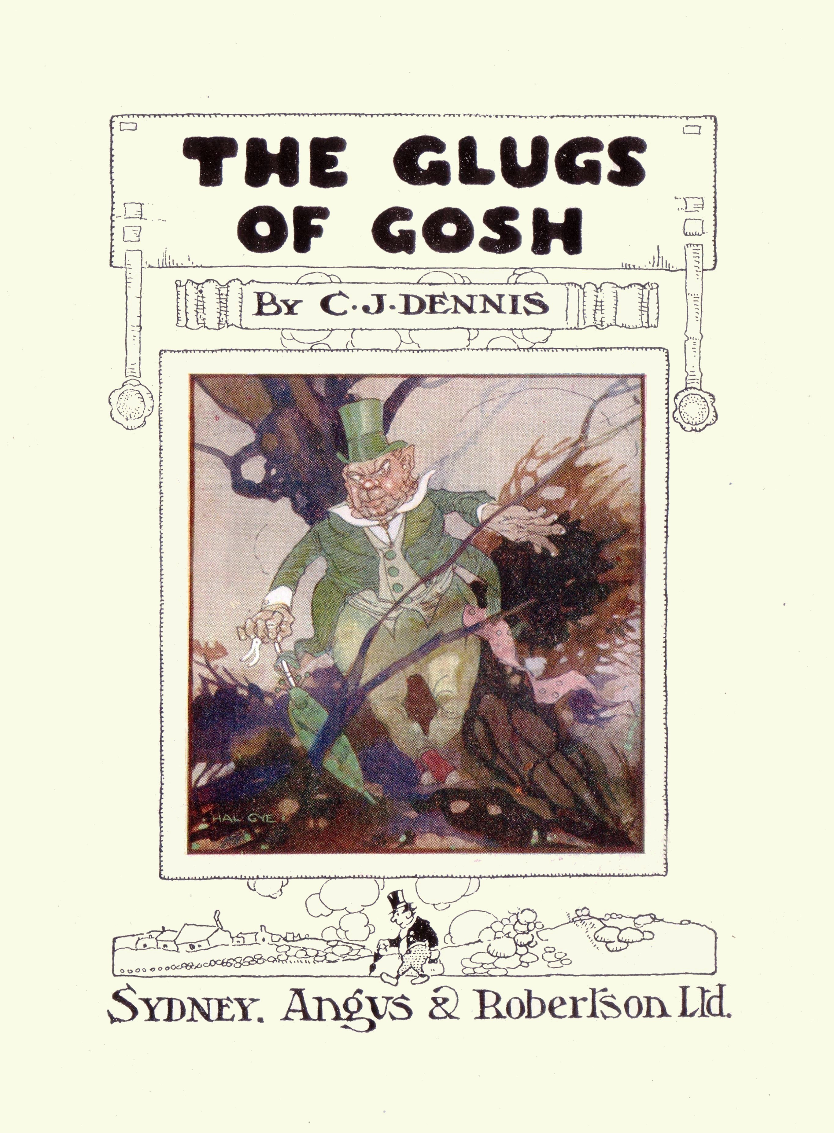 From The Glugs of Gosh by C. J. Dennis.